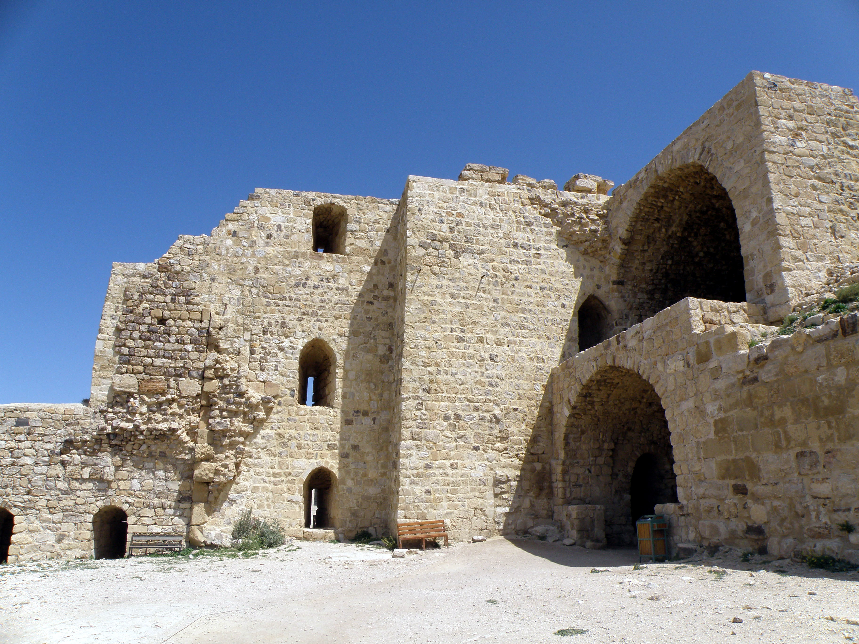 Al Karak castle in Jordan